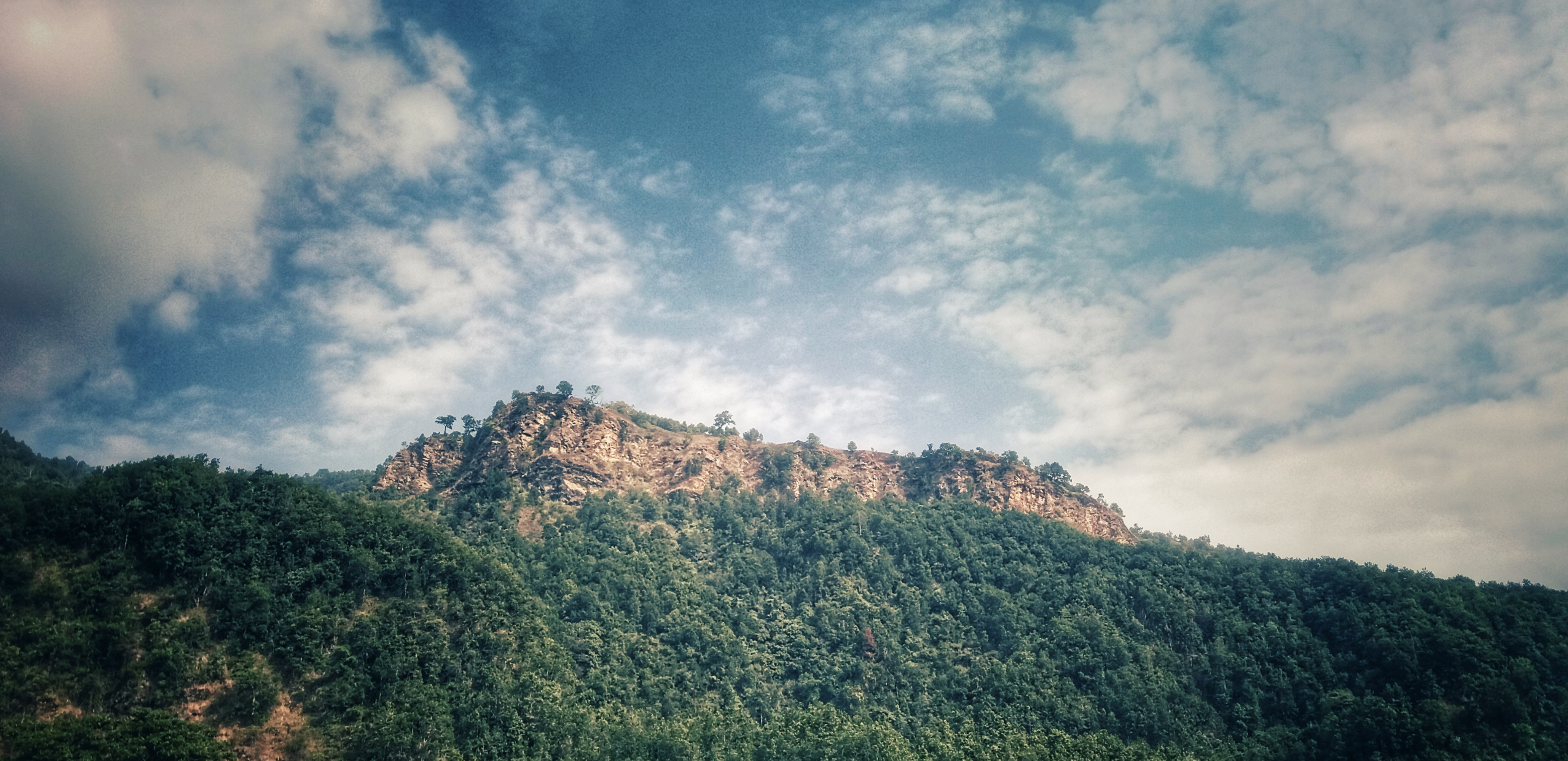 Picture of Ratpahad of Saldanda